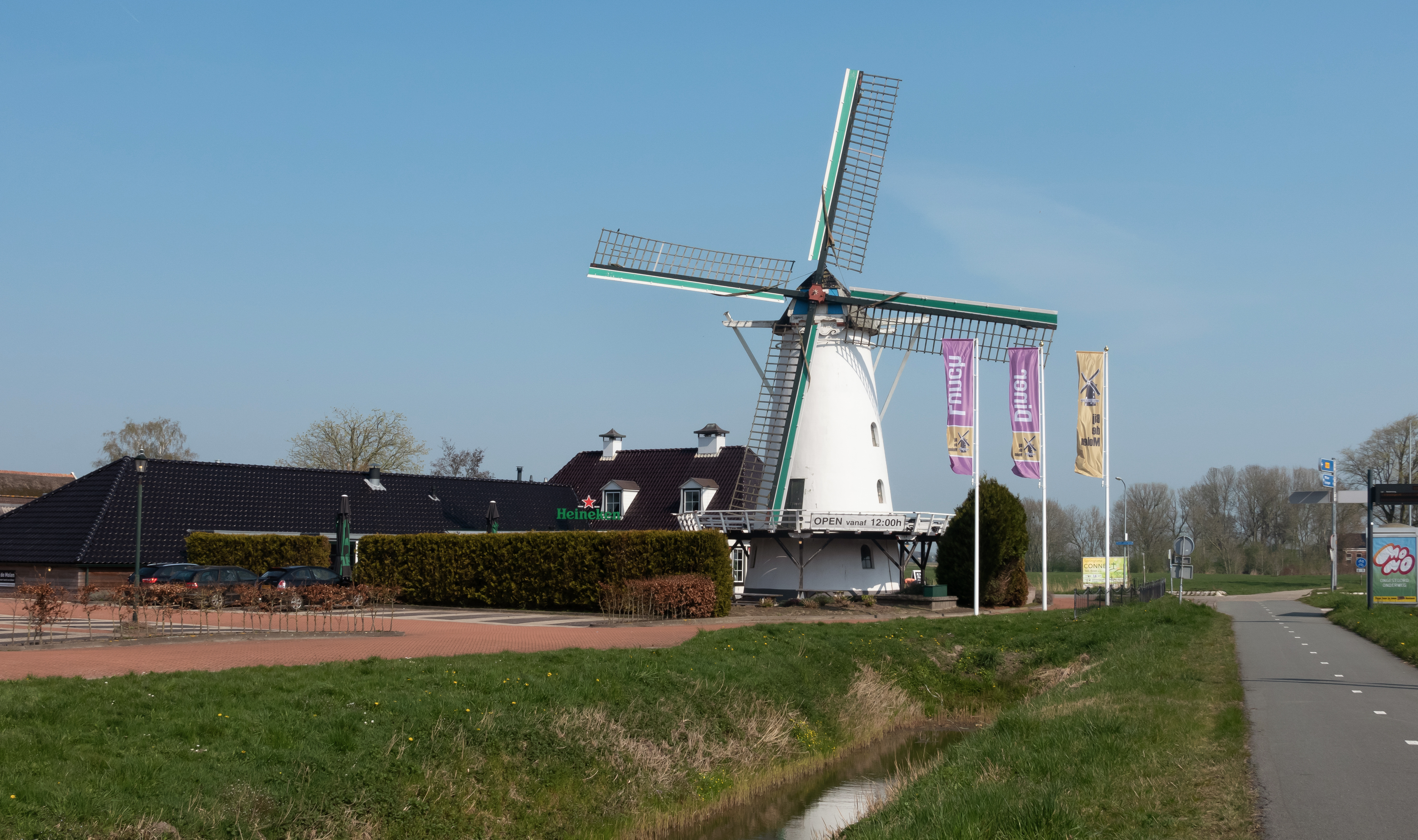 Ten Post, windmill: korenmolen De Olle Widde